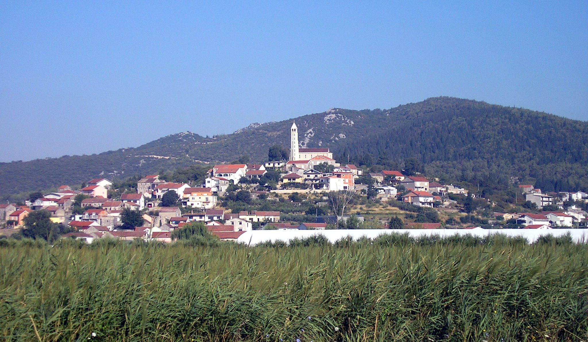 Panoramic view of Vid